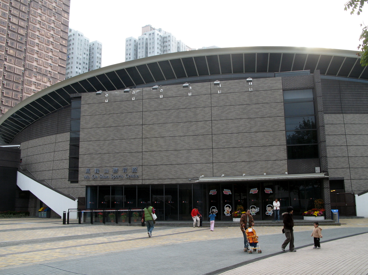 HK Ma On Shan Sports Centre